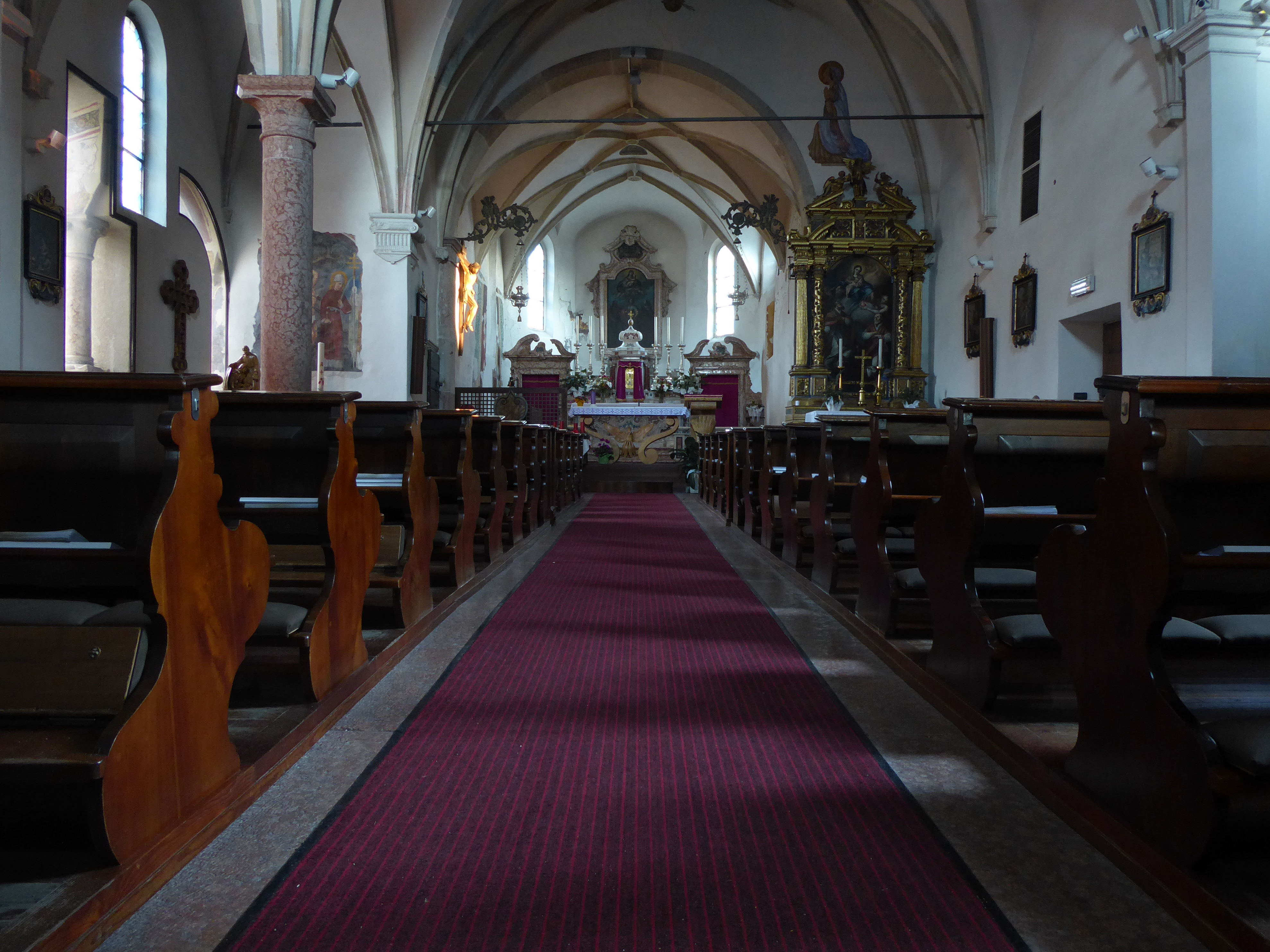 Cognola (Trento, Italy) - Saints Vitus, Modestus and Crescentia church - Interior